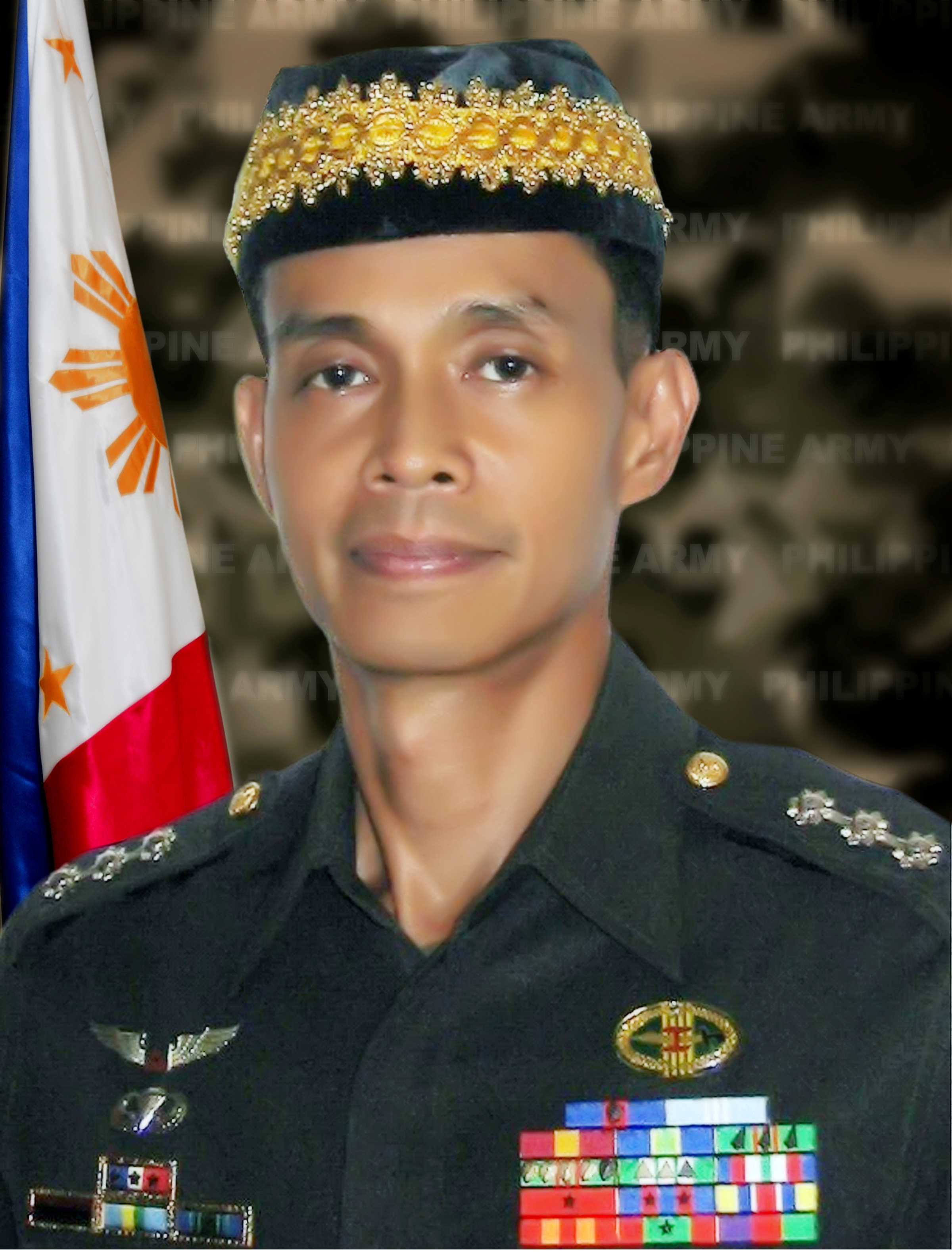 Philippine Army Colonel Benito de Leon, the Commander of 104th Infantry (Sultan) Brigade, 1st Infantry Division wearing his Maranao Sultan cap.